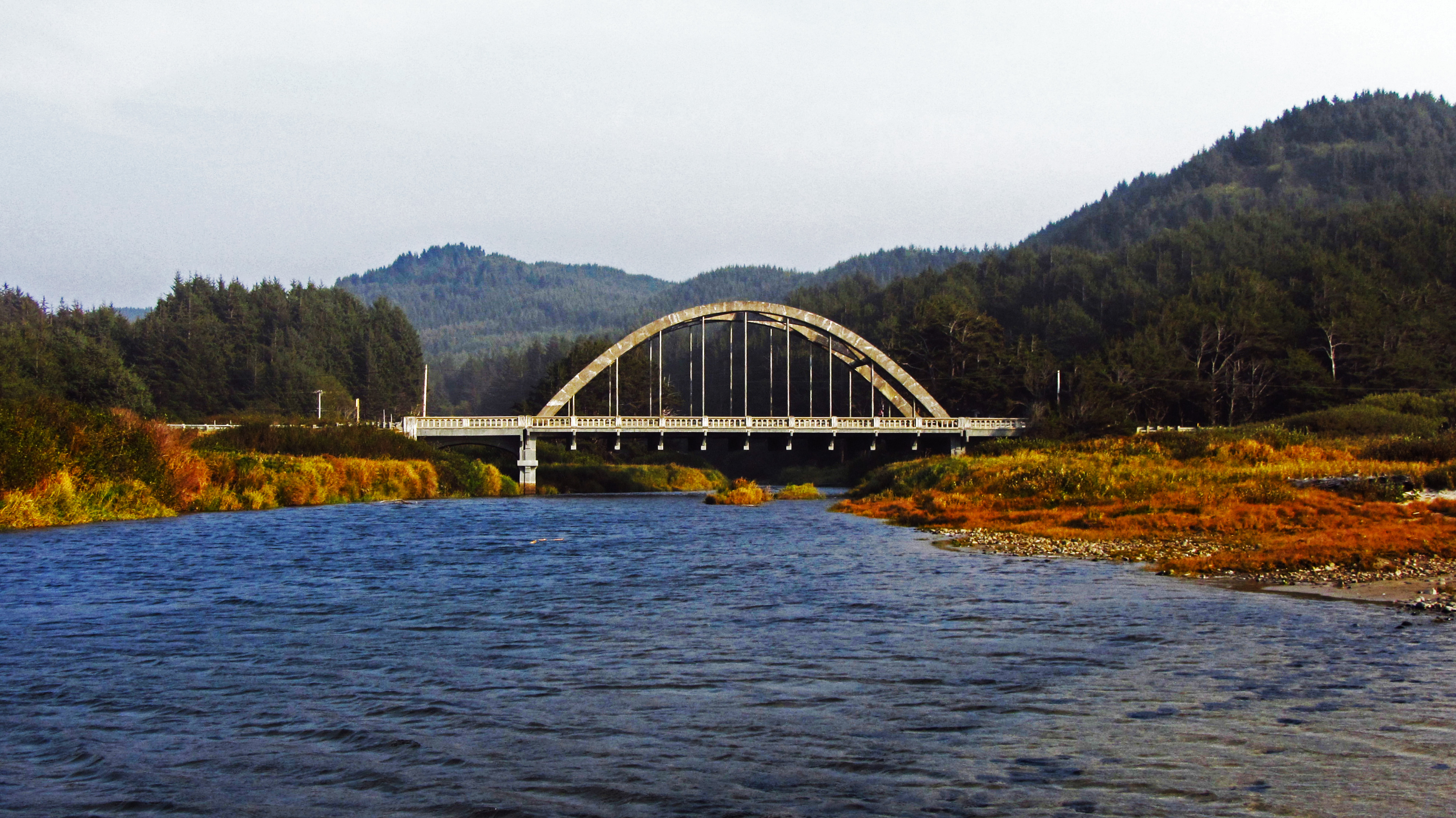 Big Creek Bridge carries Highway 101 over the mouth of Big Creek on the Oregon coast where it empties into the Pacific Ocean.